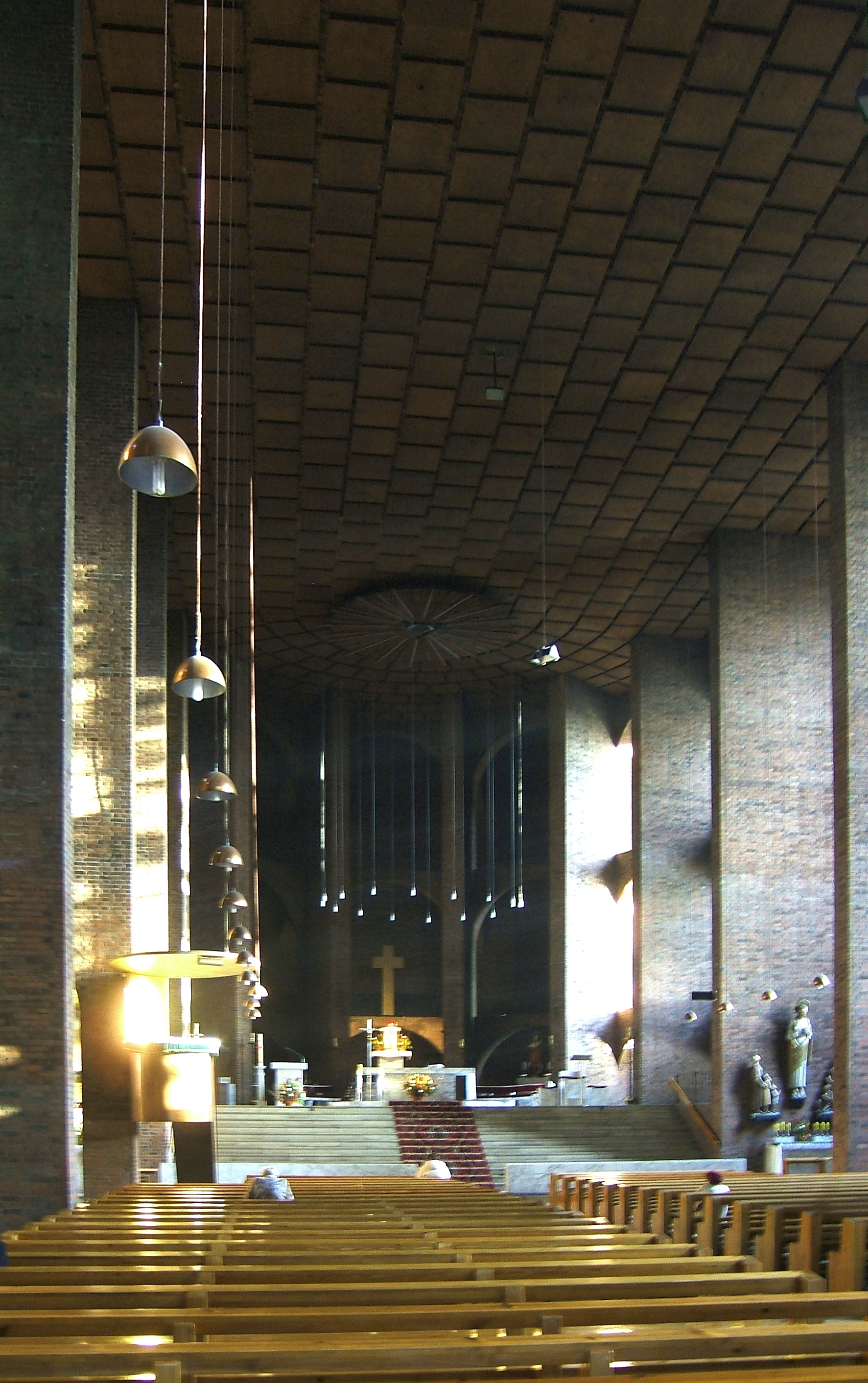 Interior of Saint Joseph's Church in Zabrze.